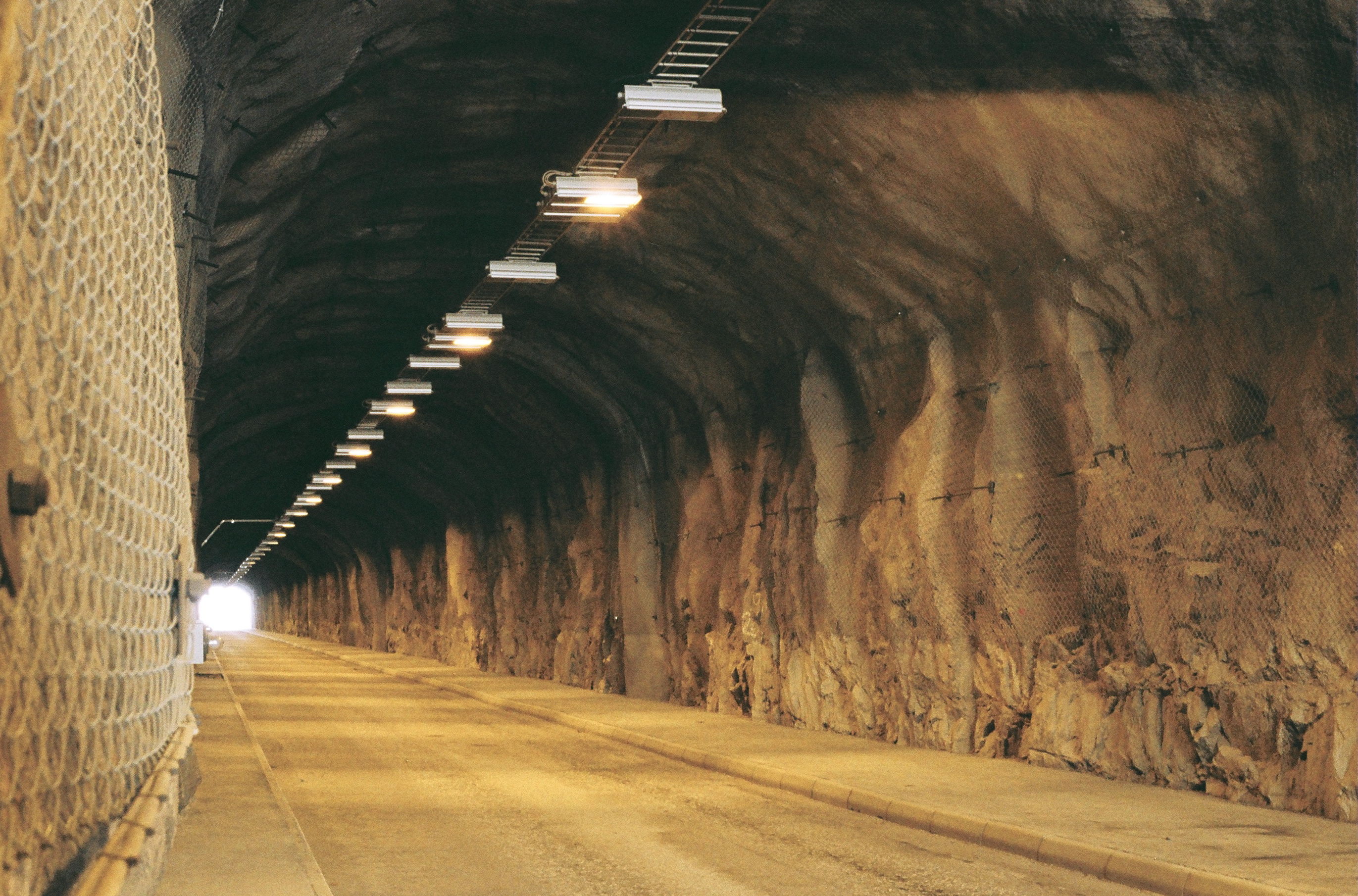 Finnbergstunnel